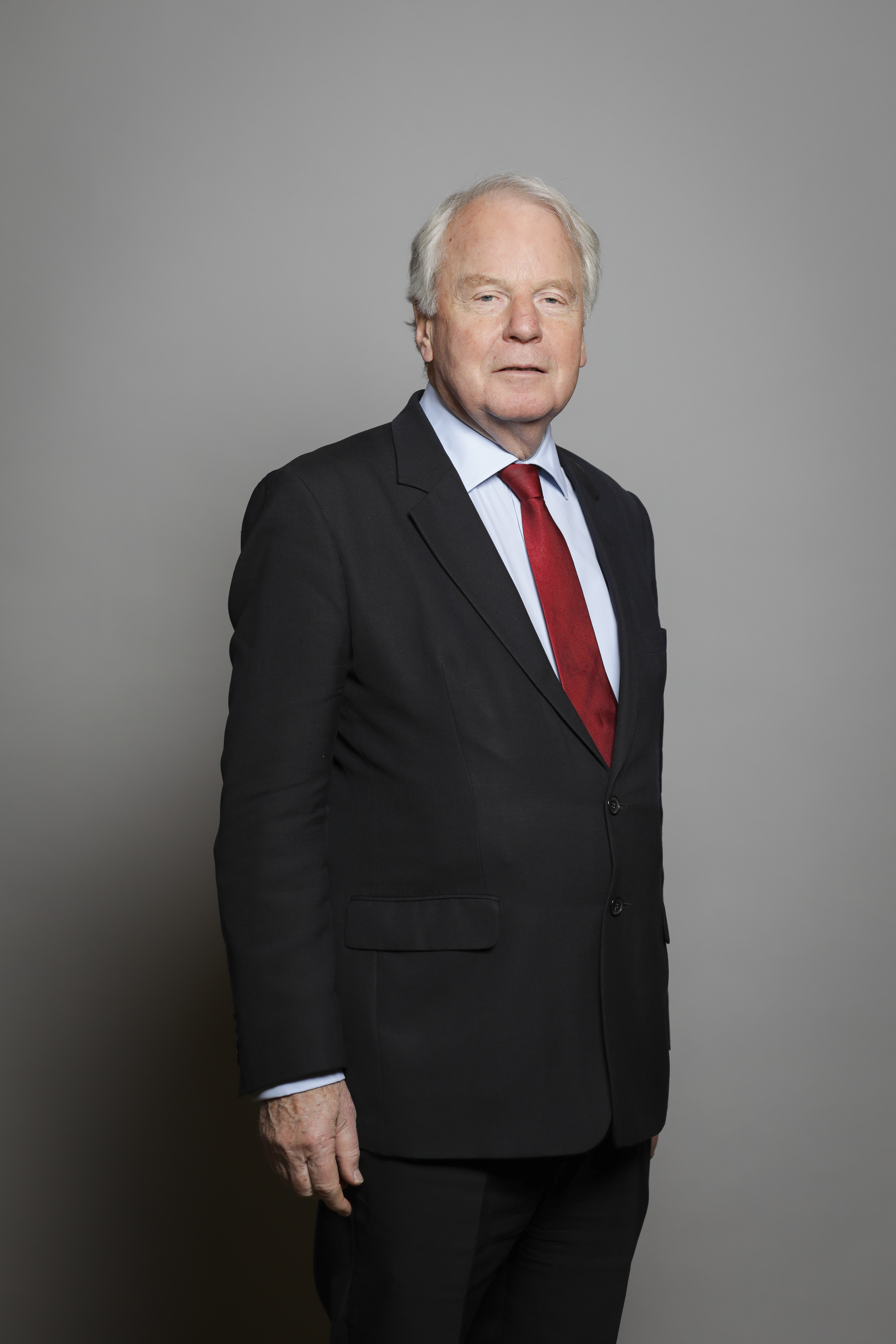 Official portrait of Lord Janvrin Full sized portrait of Lord Janvrin